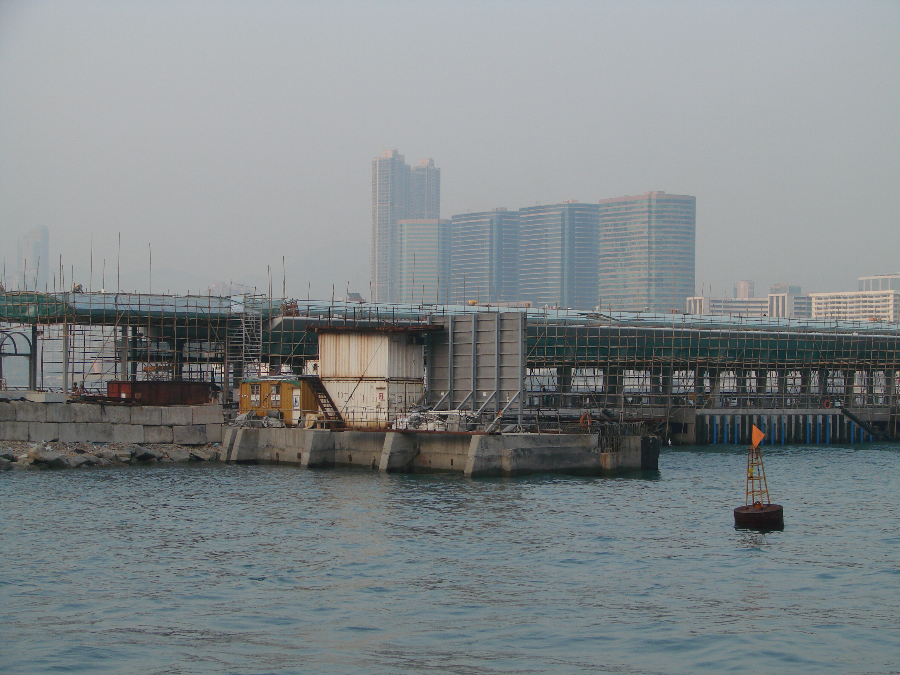 Pier 9, Central Piers of Hong Long